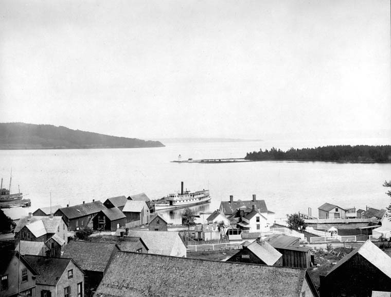 A view over the roof tops of the village of Baddeck, looking east out toward the Baddeck Wharf and Kidston Island Lighthouse with Red Head in the distance. A Coastal Steamer is at the Wharf, 1914